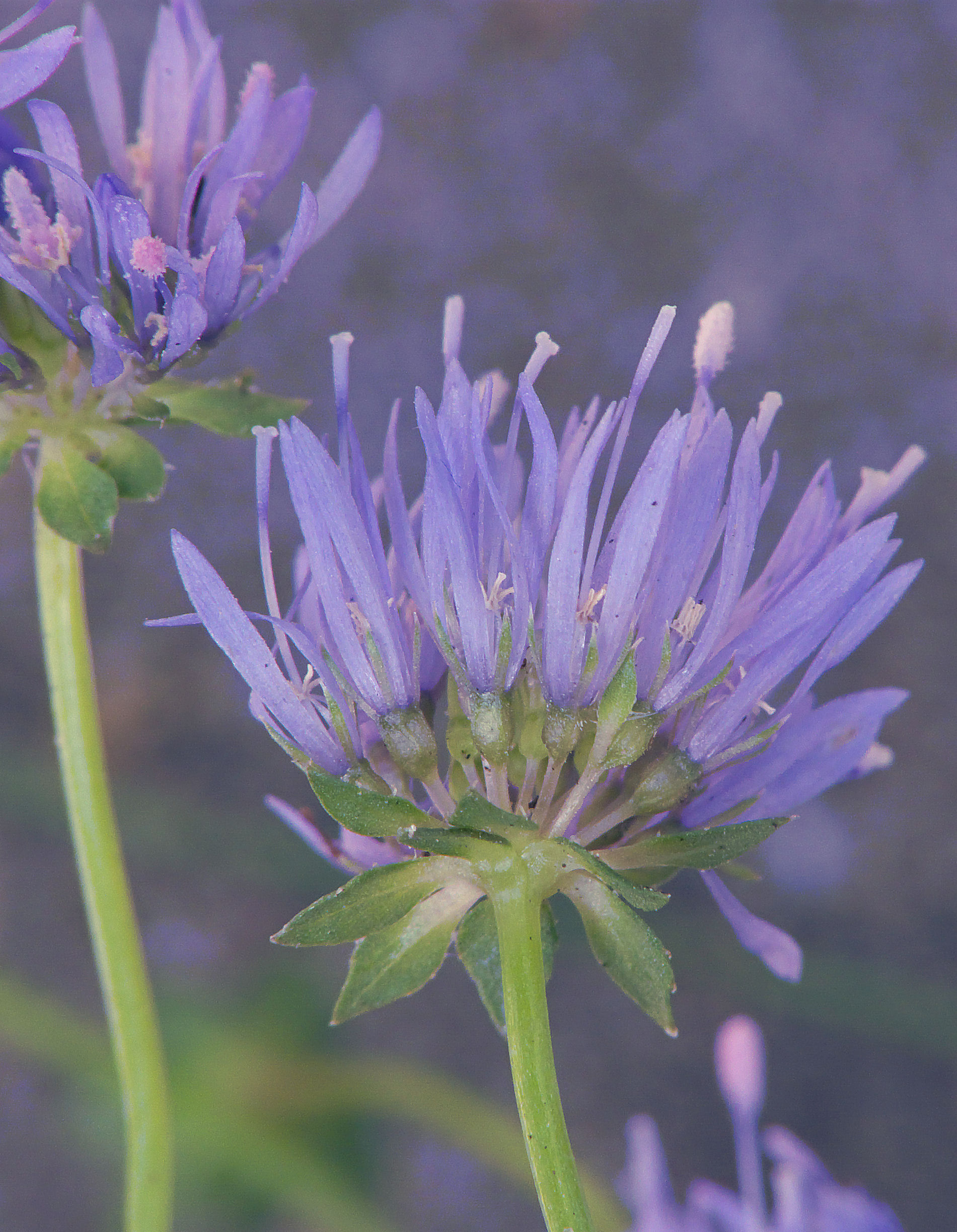 Jasione montana inflorescence